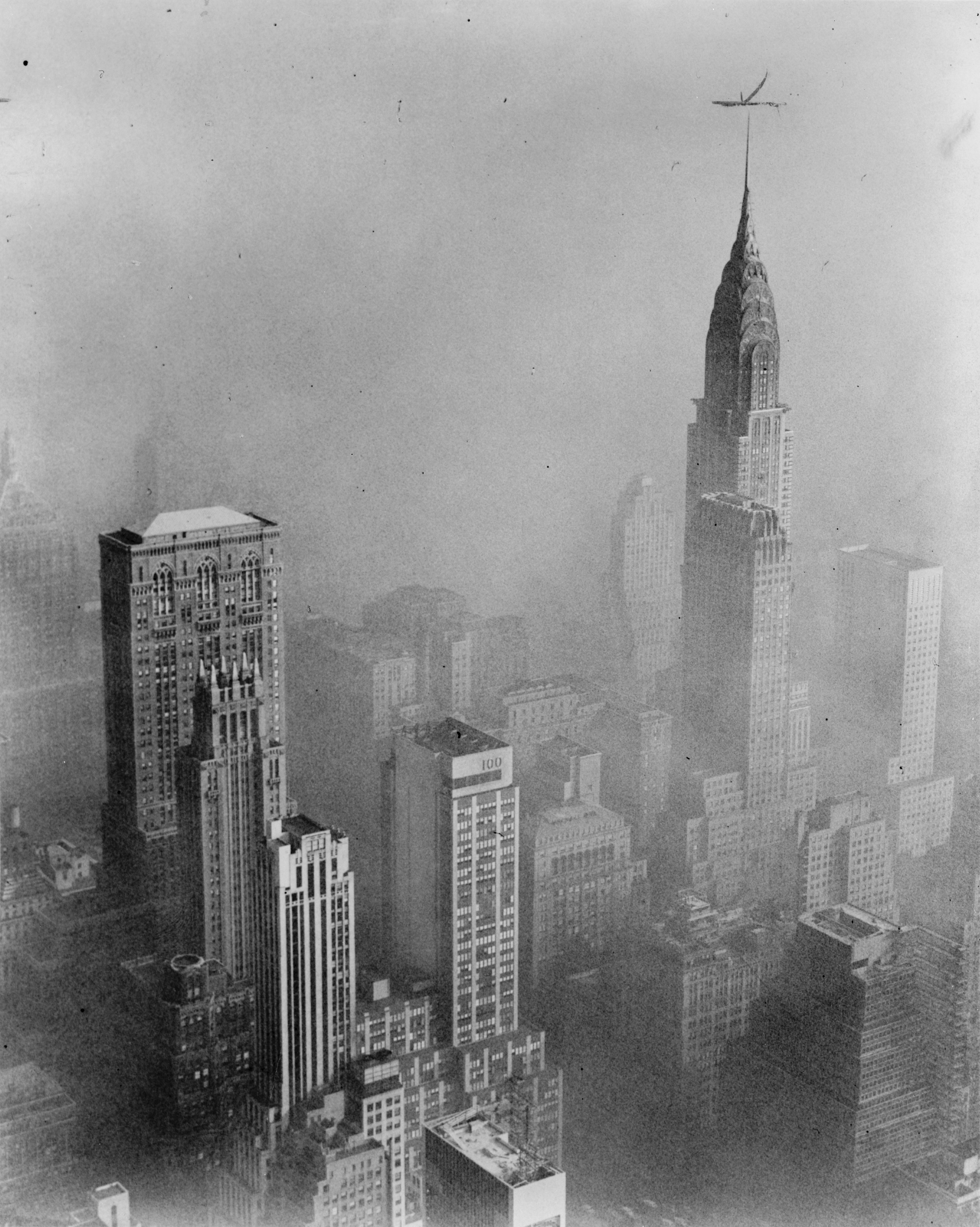 [Smog obscures view of Chrysler Building from Empire State Building, New York City] / World-Telegram photo by Walter Albertin.